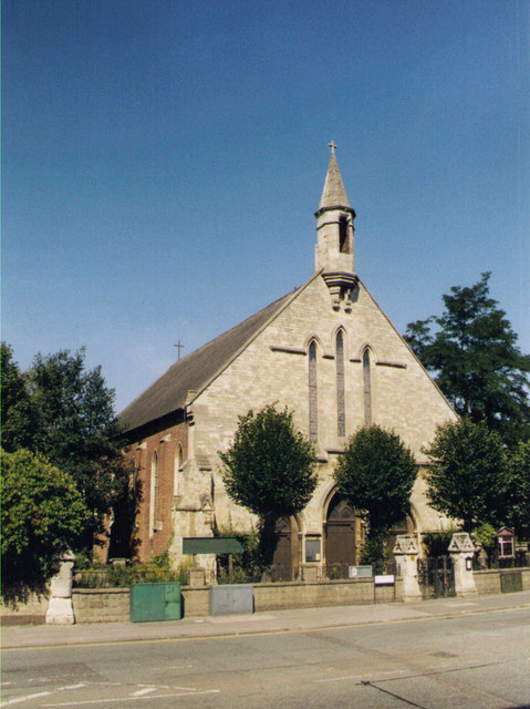 Holy Trinity Church on Oxford Road, in the English town of Reading.